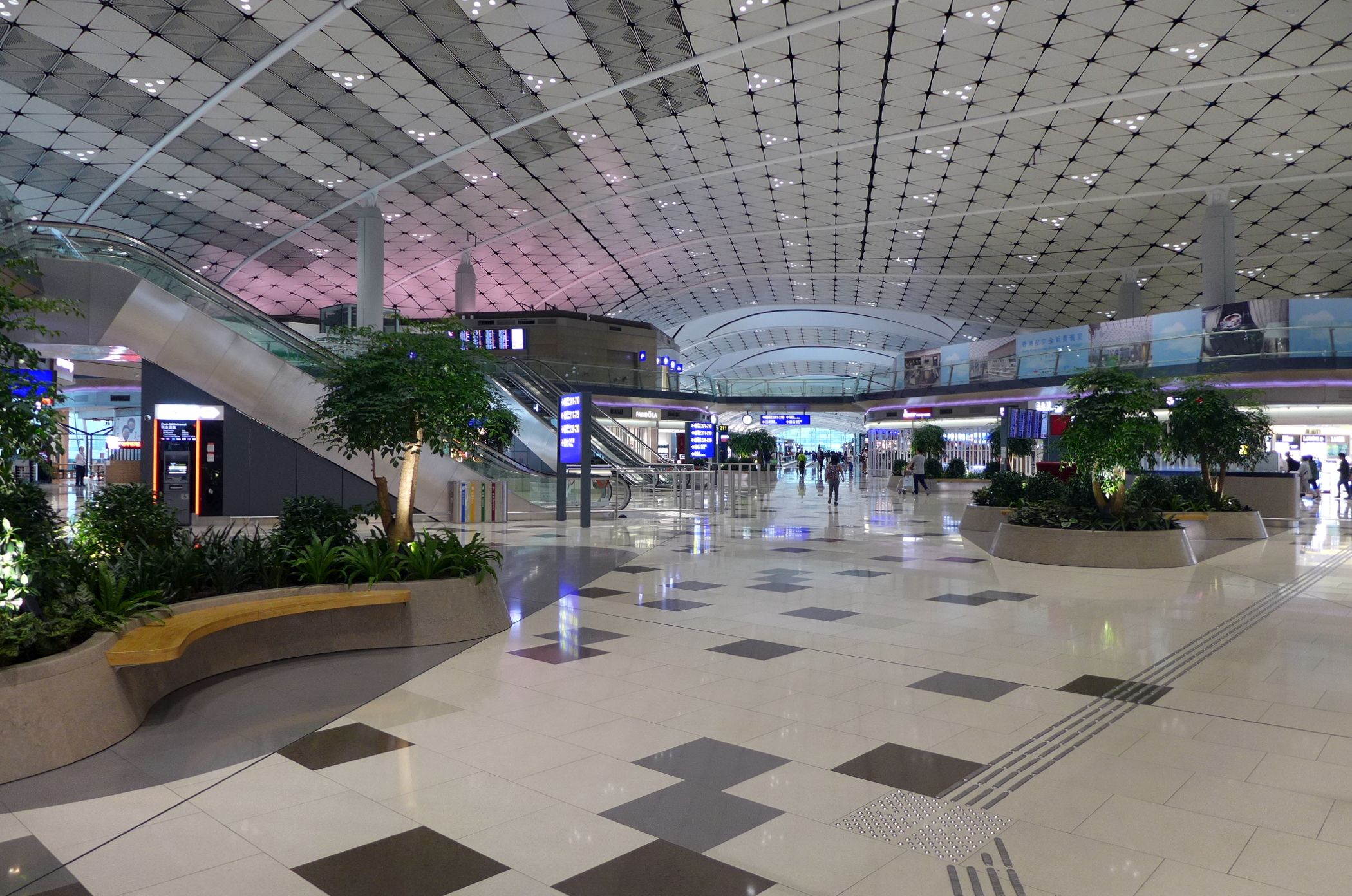 Hong Kong International Airport Midfield Concourse